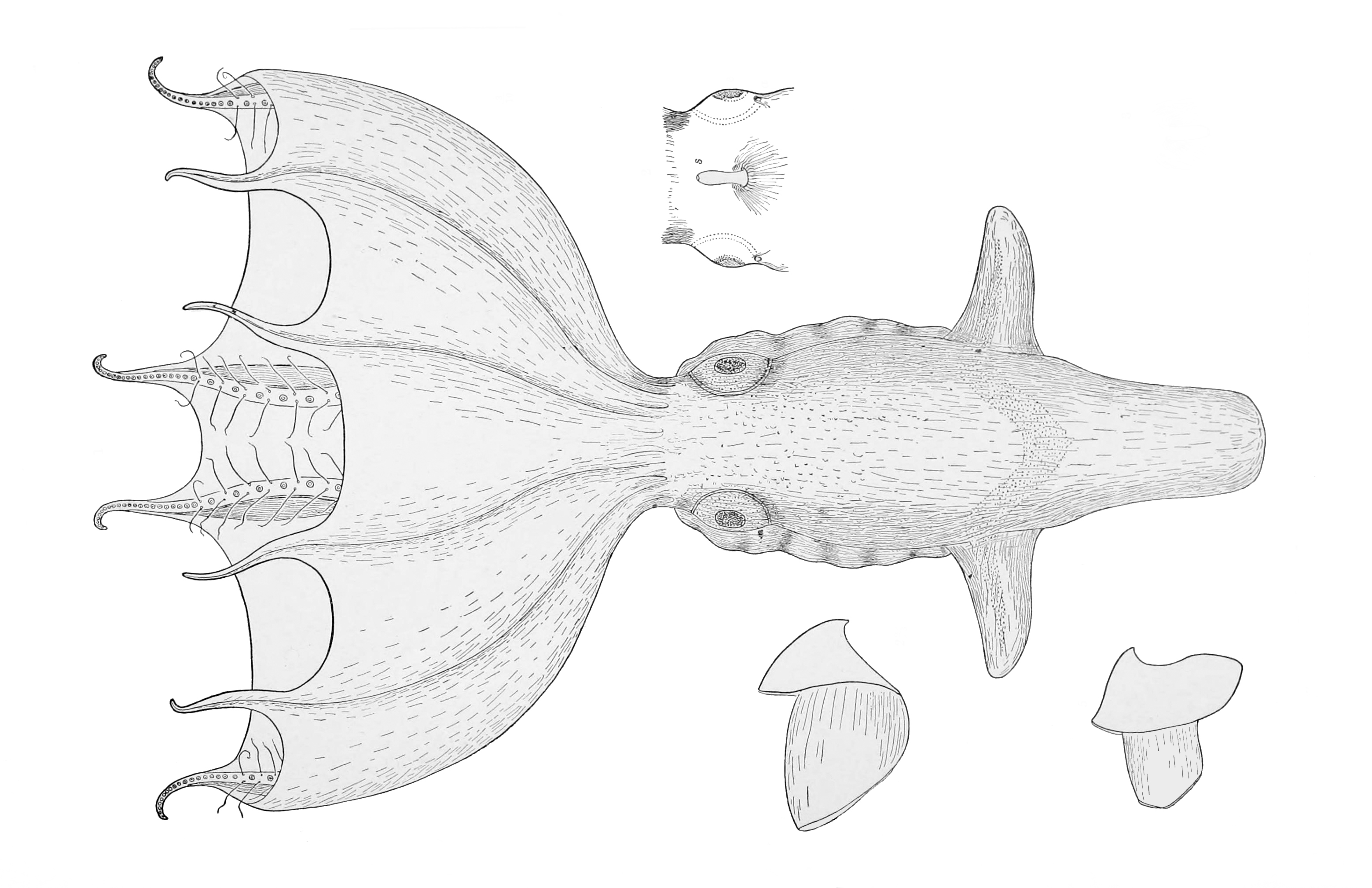 FALSE drawing of Stauroteuthis syrtensis